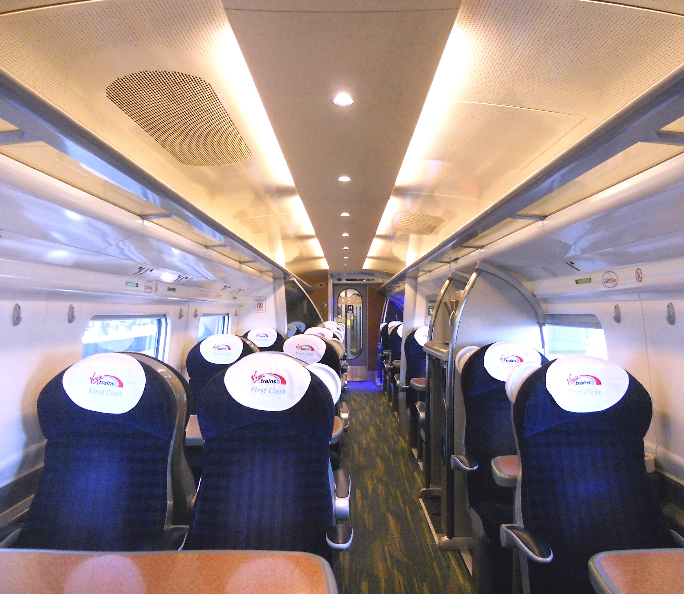 The interior of First Class aboard a Virgin Trains Class 390 Pendolino